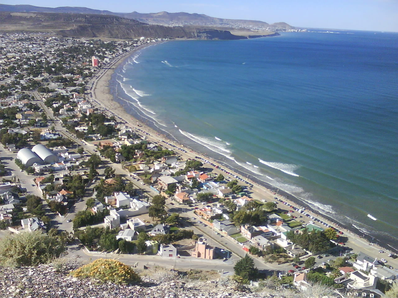 Rada Tilly, Chubut Province, Argentina.